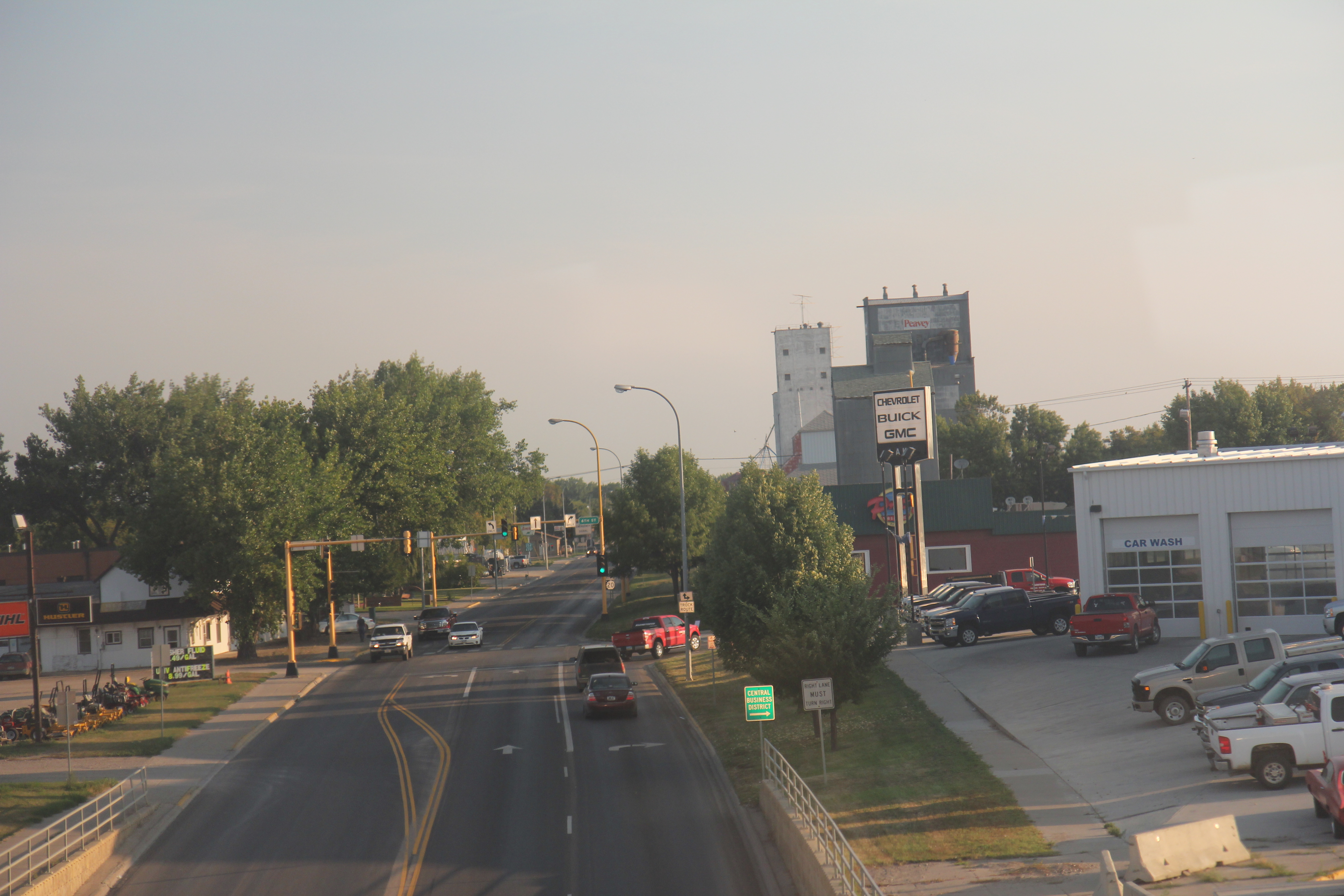 North Dakota Highway 20 in Devils Lake, North Dakota from Amtrak on train tracks near southern terminus along U.S. Route 2.